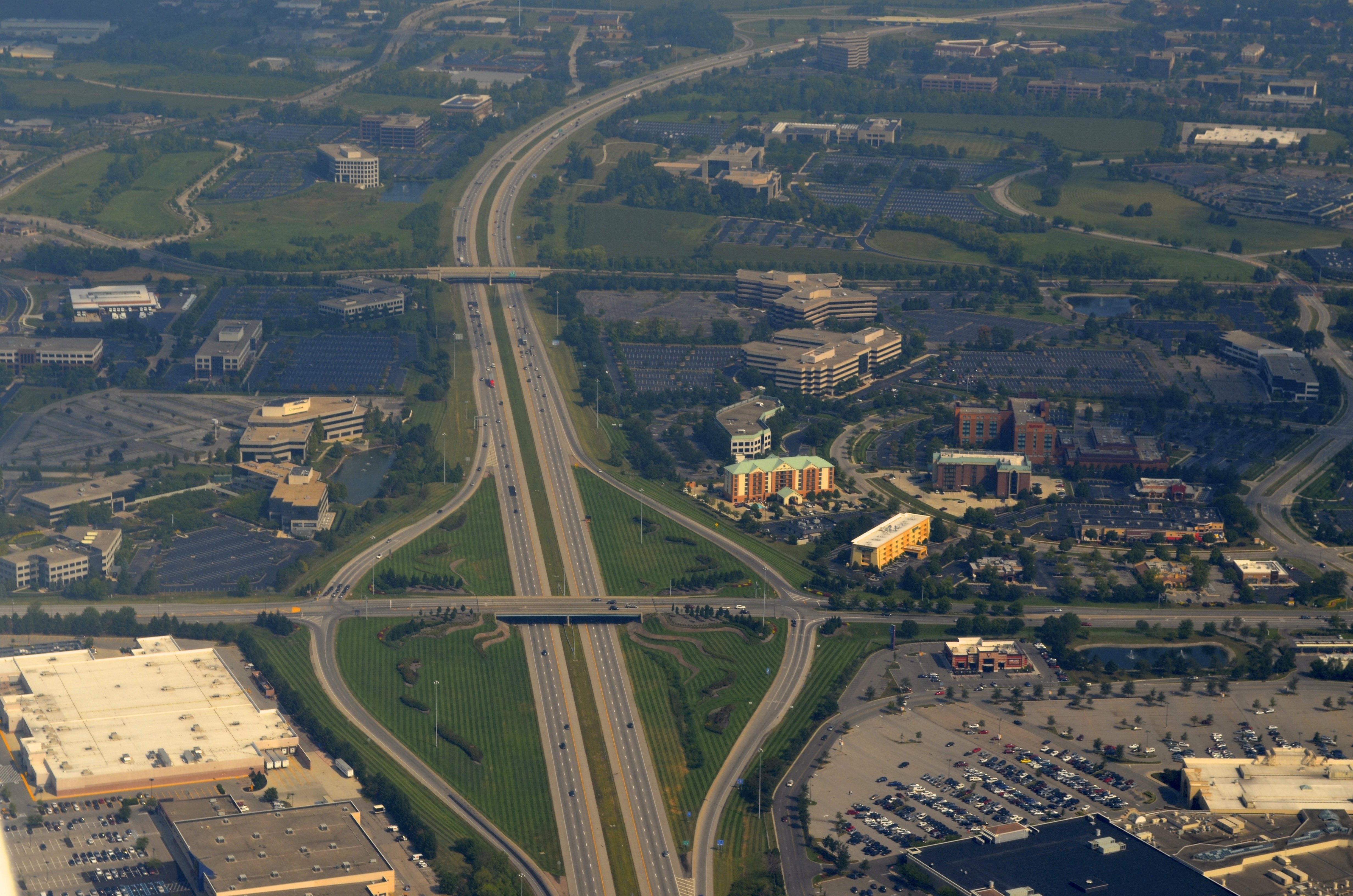 Northwest of I-270, Columbus, Ohio; Exit 15: Tuttle Crossing Blvd